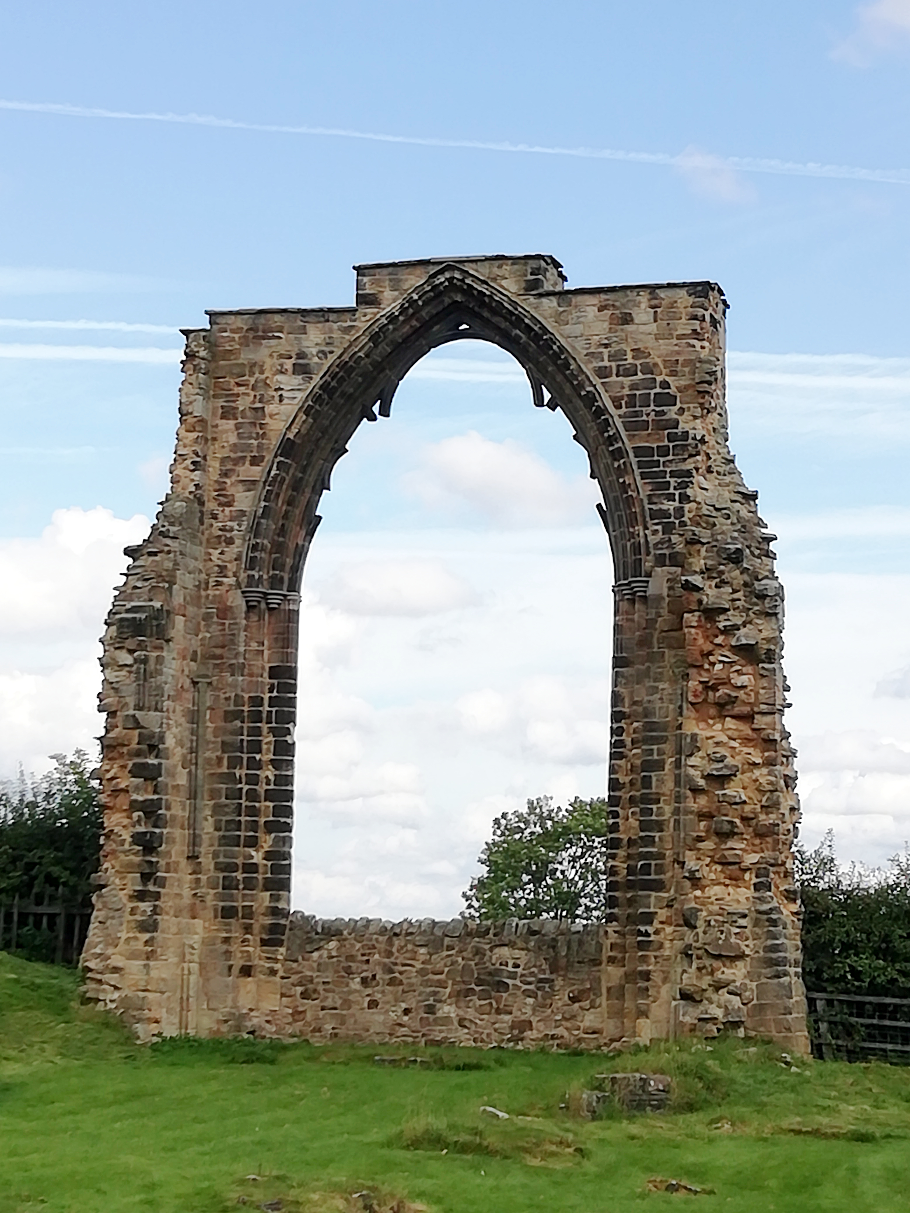 A view of the east window of Dale (Stanley Park) Abbey, from the interior. It is more often viewed from outside. A small part of the return of the north chancel wall is visible on the left.